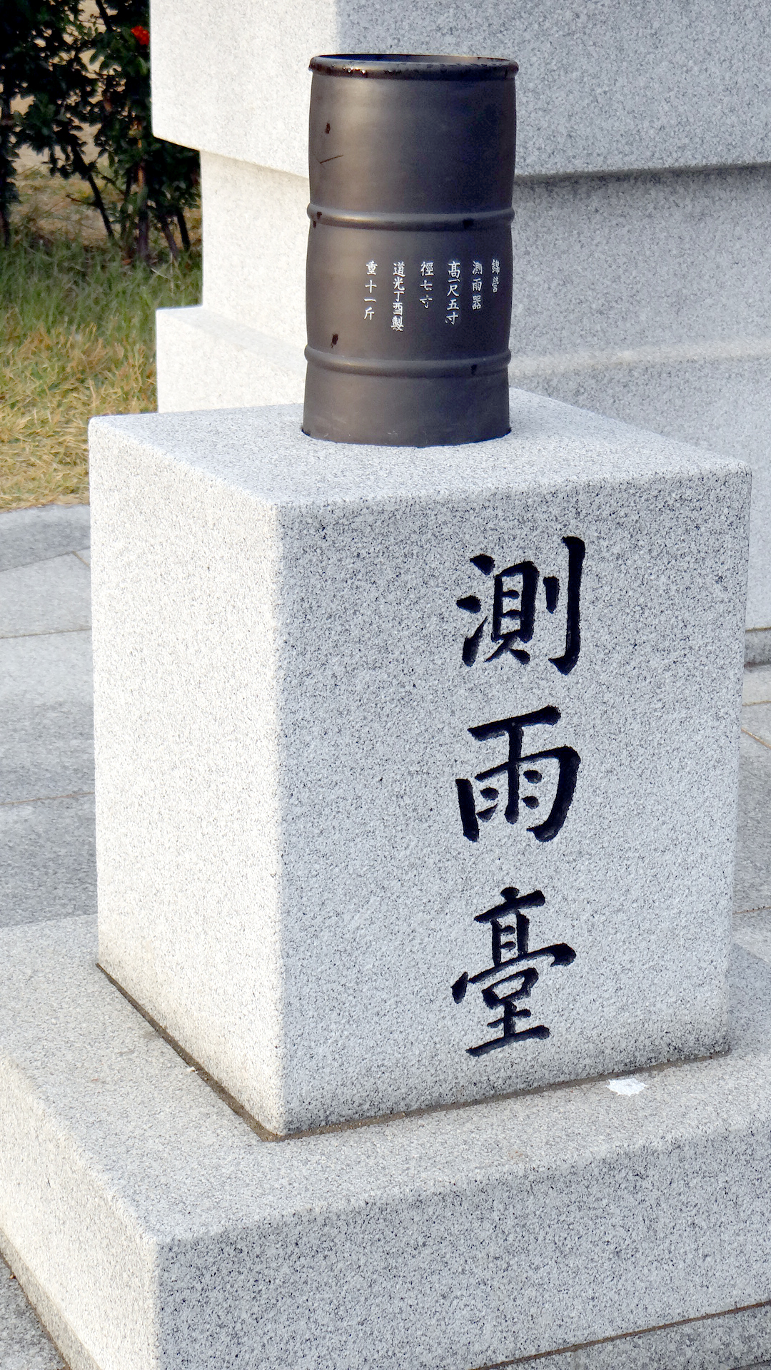 Jang Yeong-sil Science Garden in Busan commemorates the achievements of one of the greatest scientists of Joseon. The Rain Gauges are instruments to measure rain fall. The rain gauge is Treasure #842.